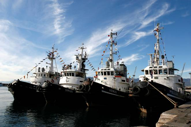 Group of tugboats in the Harbour of Rijeka, Croatia.